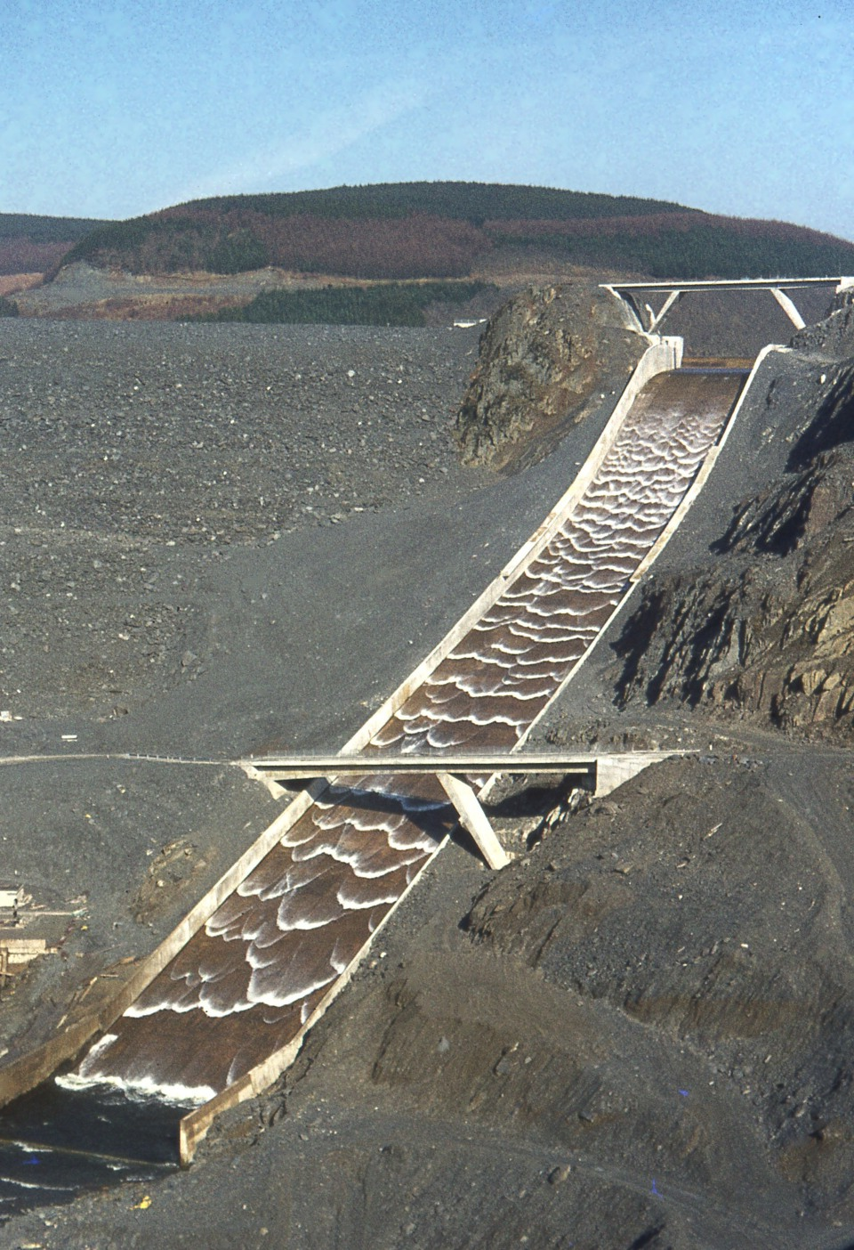 Spillway from Llyn Brianne Dam, Wales. Location: Llyn Brianne, Wales.